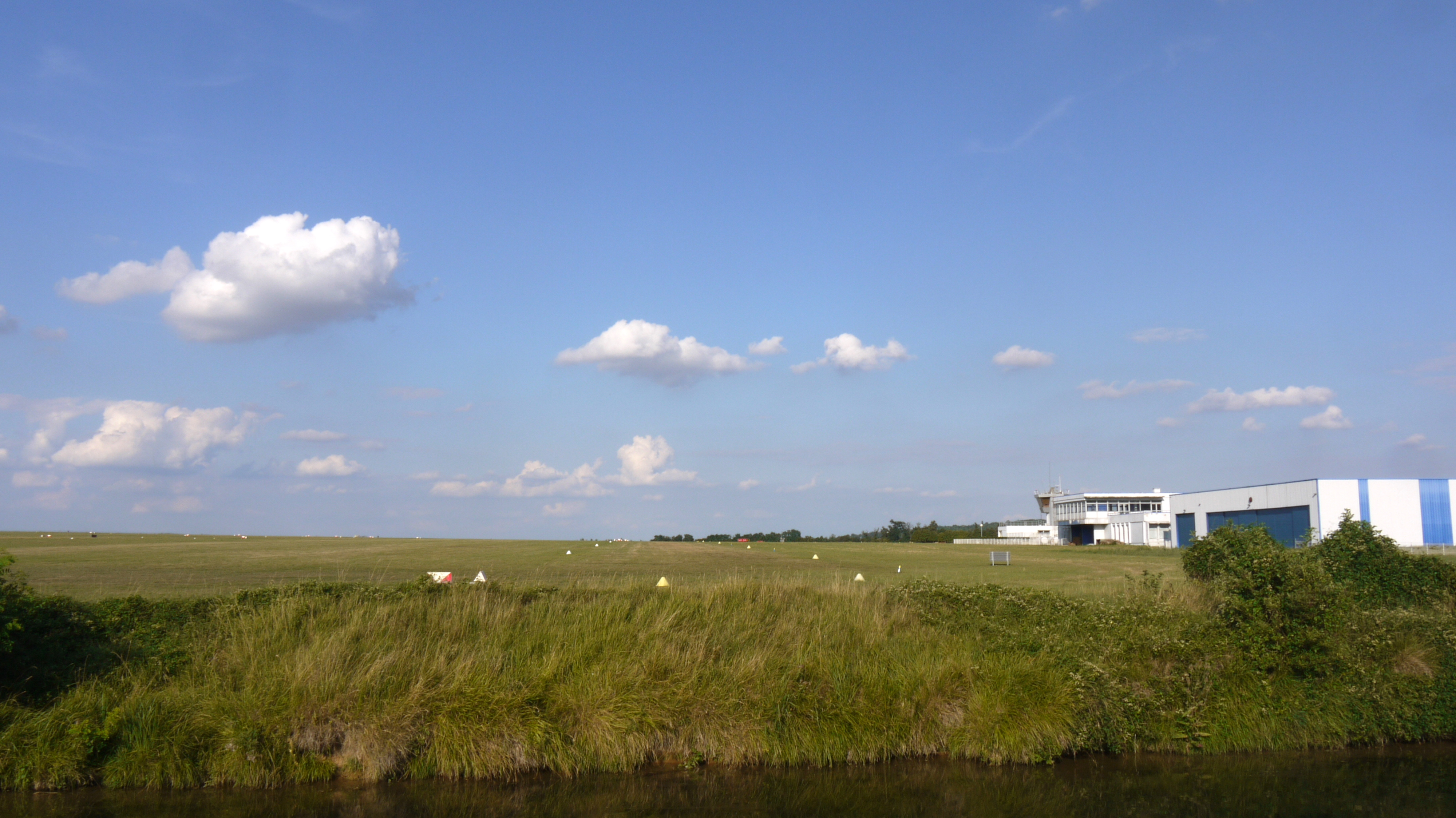 Airport of Meaux Esbly, Seine et Marne, Ile de France, France